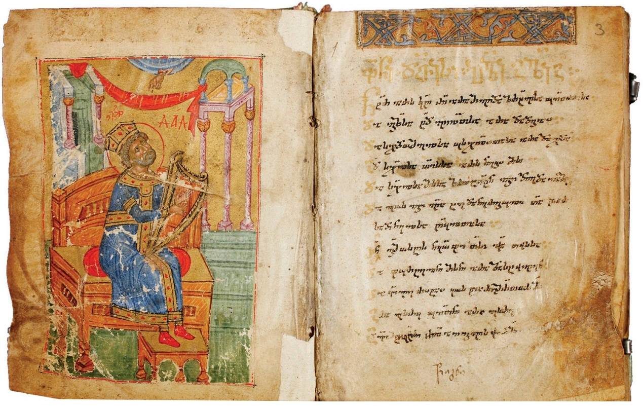 A miniature from the Georgian Psalter MSS copied at the behest of Kvarkvare and Mzechabuk Jaqeli in Samtskhe in 1494.